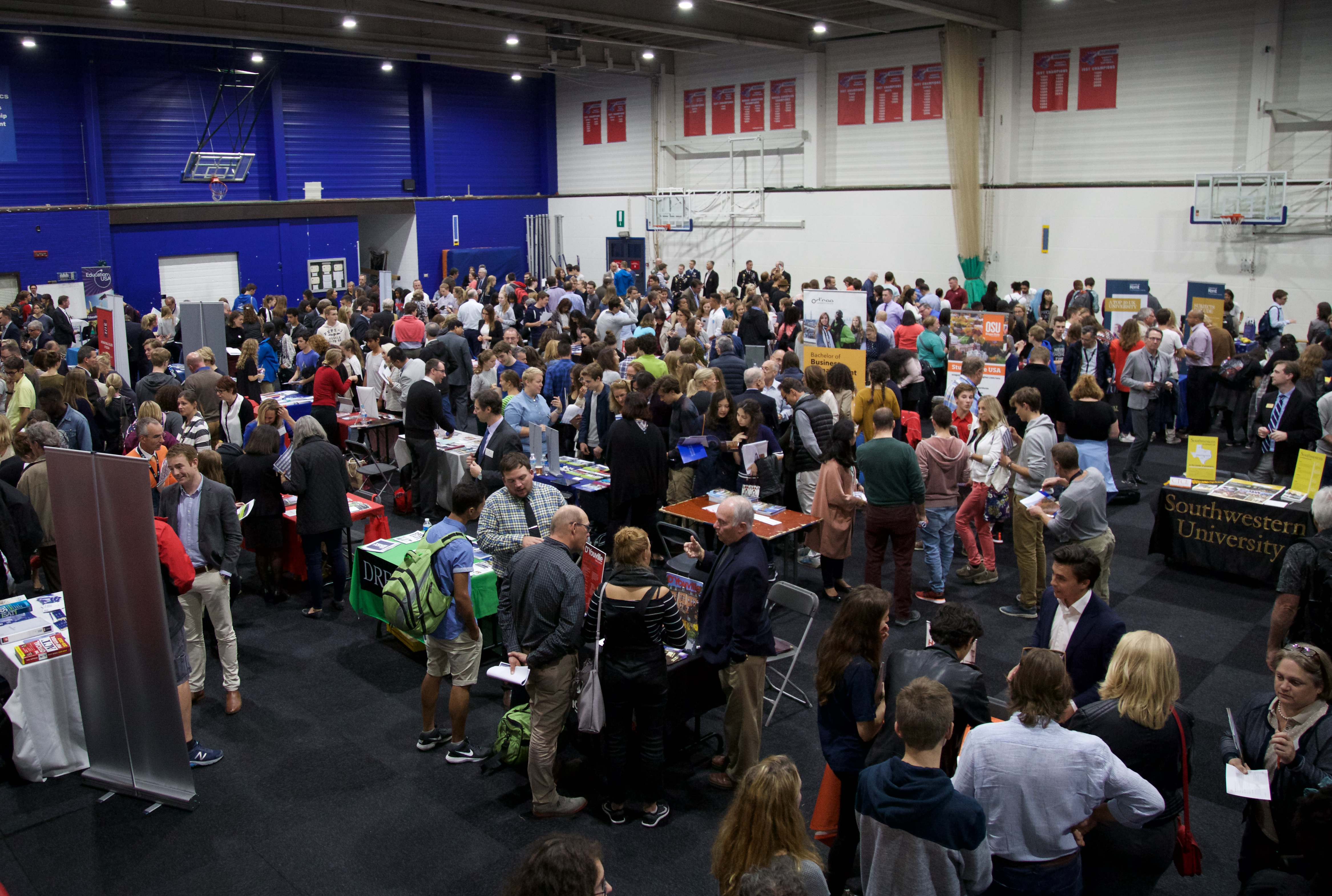 Photo of Brussels College Night, hosted by Commission for Educational Exchange between the U.S., Belgium and Luxembourg